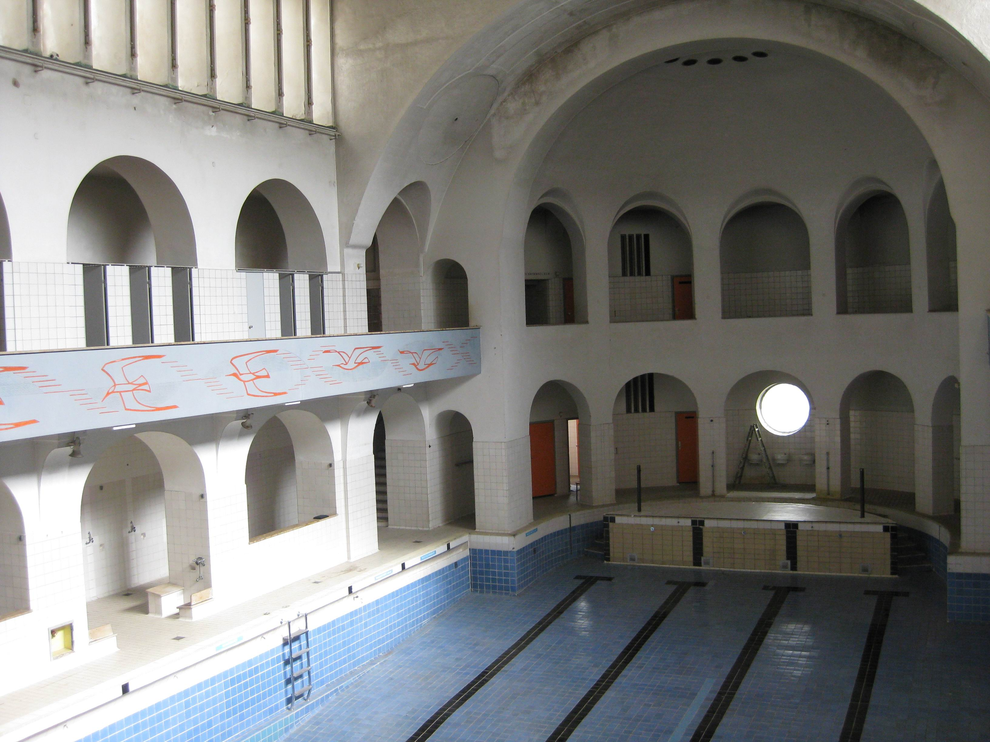 swimming hall 3 of Volksbad in Nuremberg